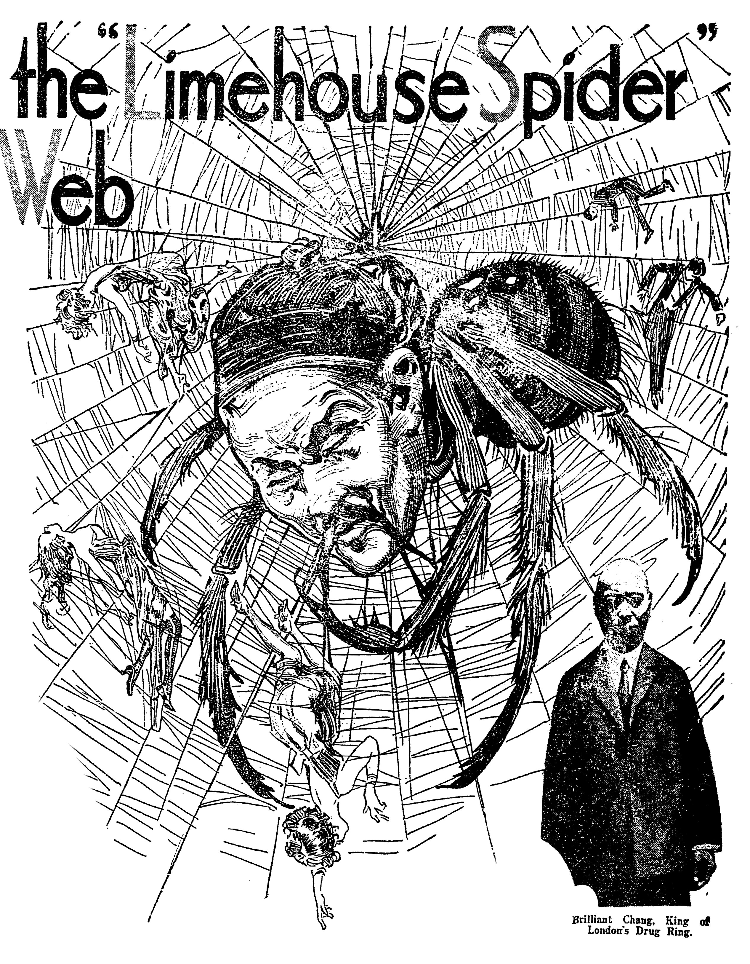 Brilliant Chang, Limehouse Spider. "How Fate Snared the "Limehouse Spider" in His Own Deadly Web", Zanesville Times Signal, 8 June 1924, p. 26.